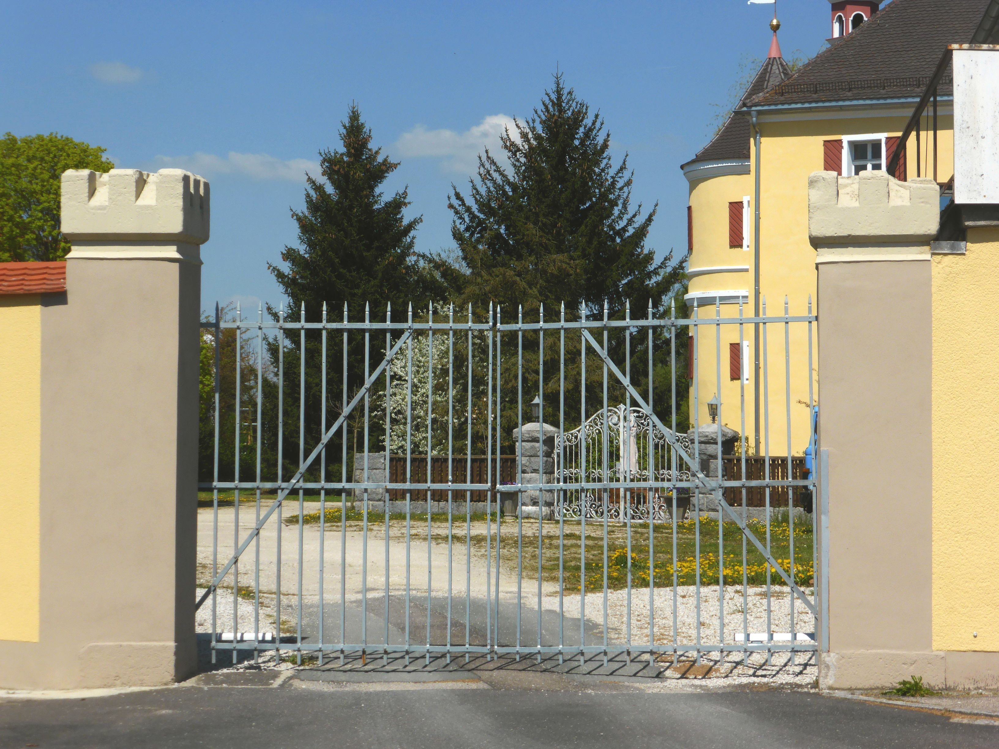 Schloss Haselmühl